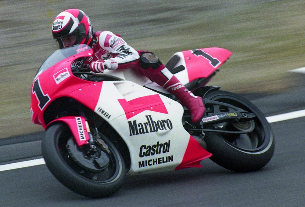 Wayne Rainey, in Japnese Grand Prix 1992